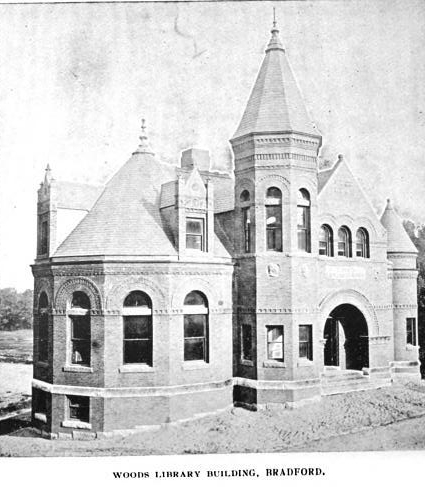 Library in Vermont